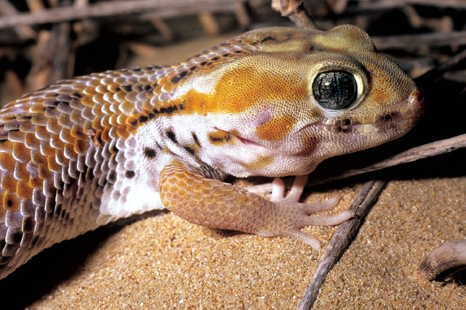 The Persian Wounder Gecko Teratoscincus scincus keyserlingii[1] photographed near Jebel Ali, Dubai.